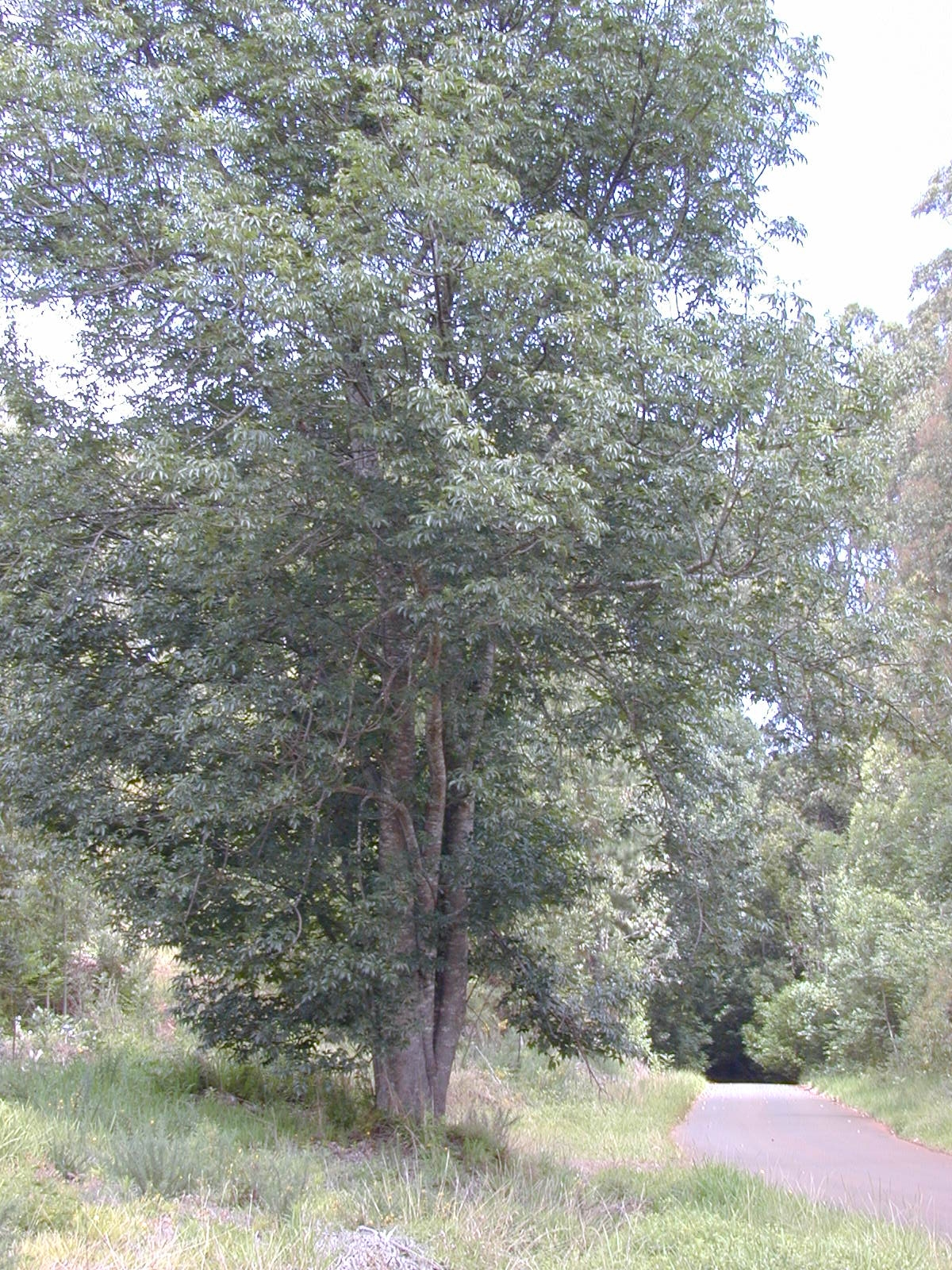 Fraxinus uhdei (habit). Location: Maui, Makawao Forest Reserve